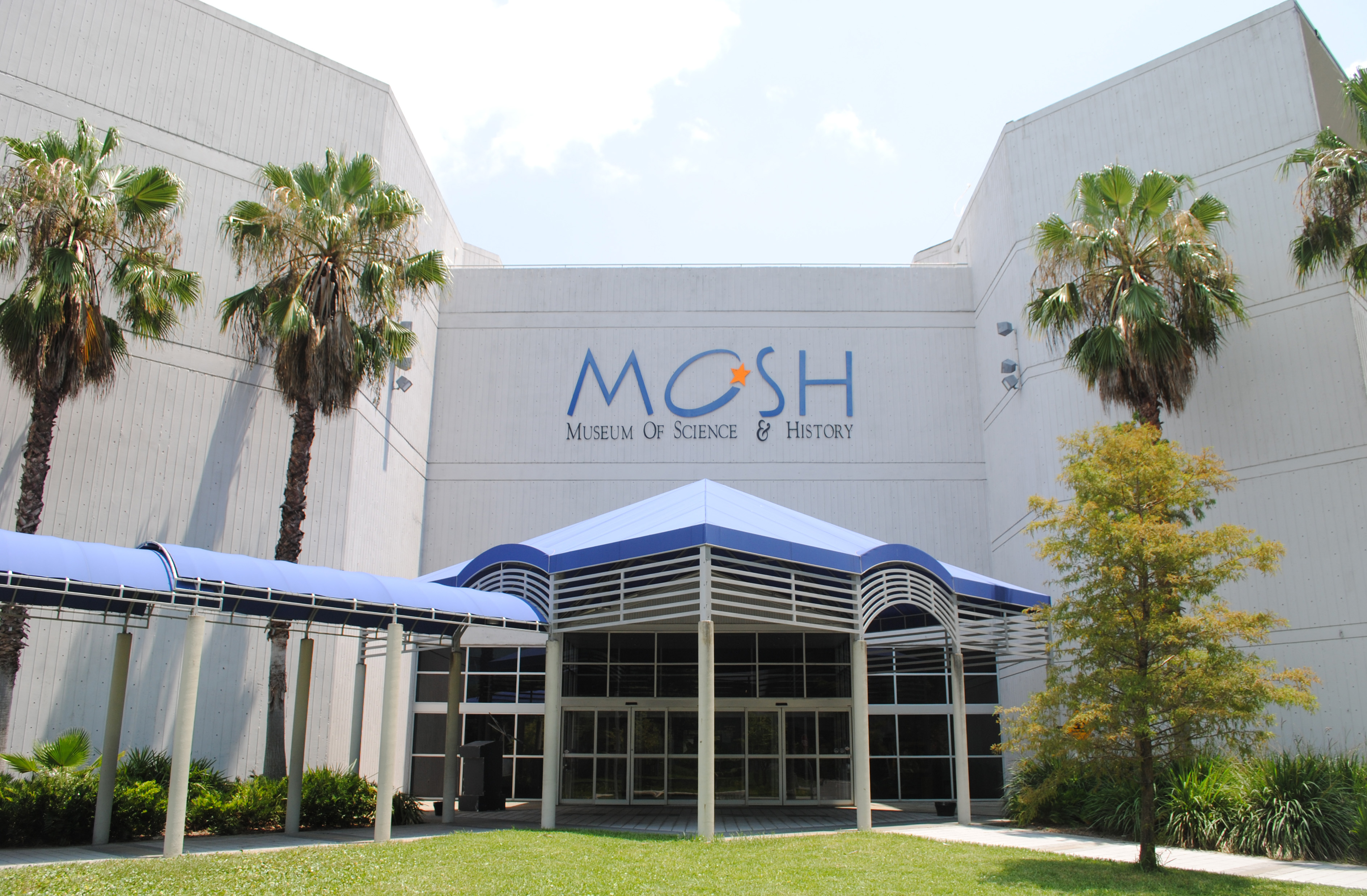 MOSH in Jacksonville, Florida.